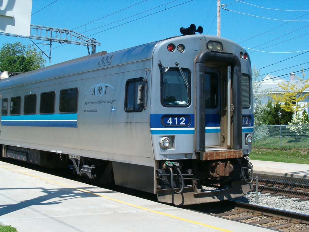 I took this picture at AMT Deux-Montagnes station in June 2005. The full original size is available at: Alex@MTRL 17:24, 1 November 2006 (UTC)